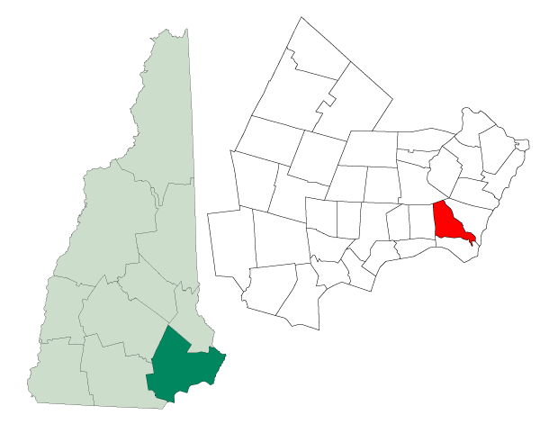 Map of a municipality in Rockingham County, New Hampshire